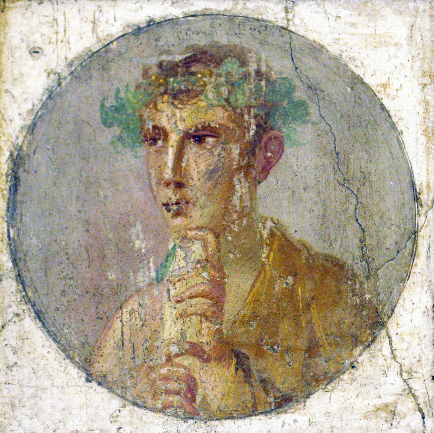 A young man with blondish hair wearing a laurel wreath, holding a rotulus document, a fresco portrait from Pompeii, 1st century AD, National Archaeological Museum of Naples (inv. nr. 9085).